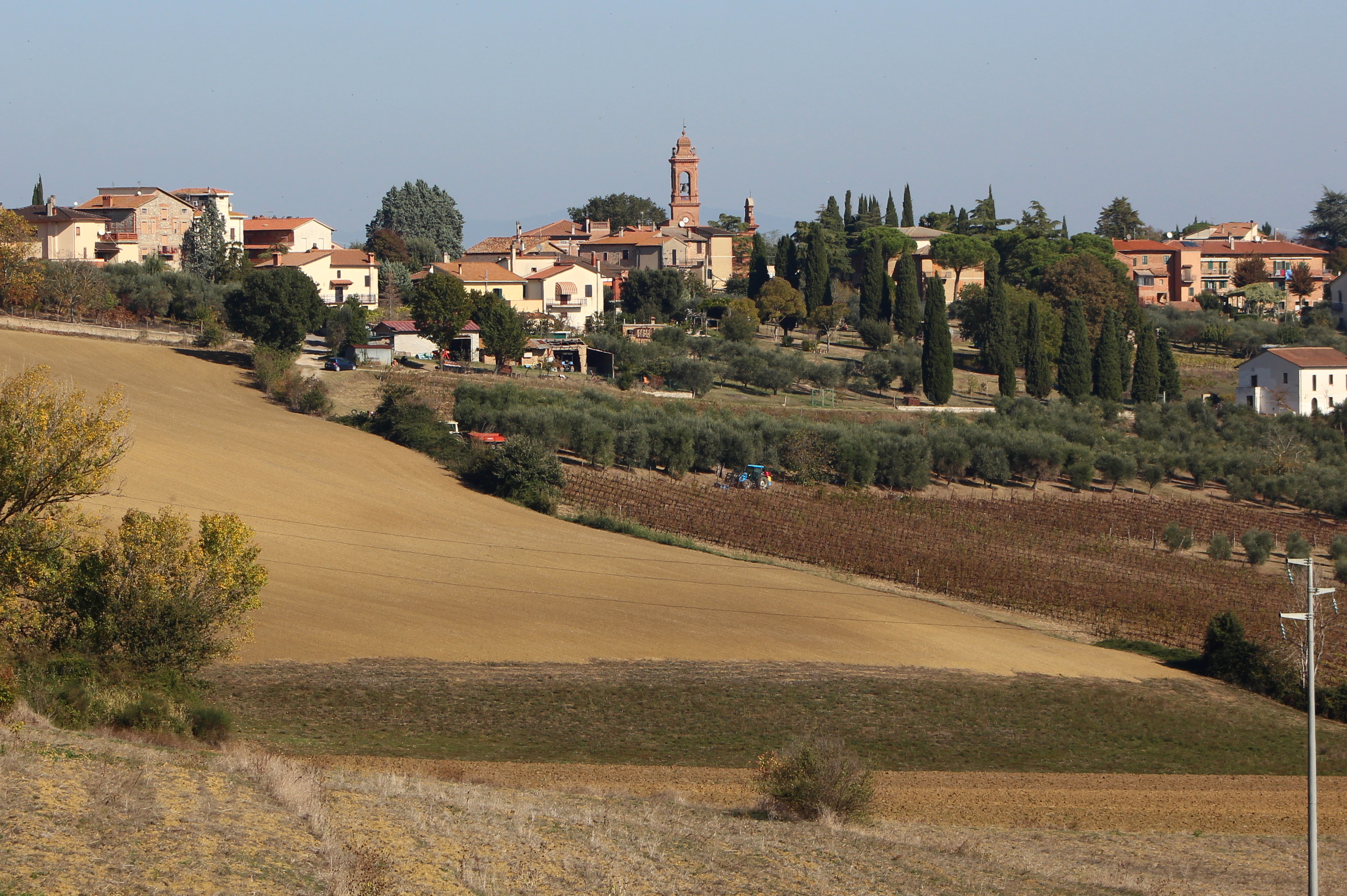 Villastrada, hamlet of Castiglione del Lago, Province of Perugia, Umbria, Italy